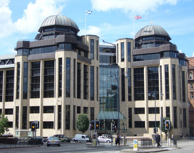 Standard Life Building, Lothian Road